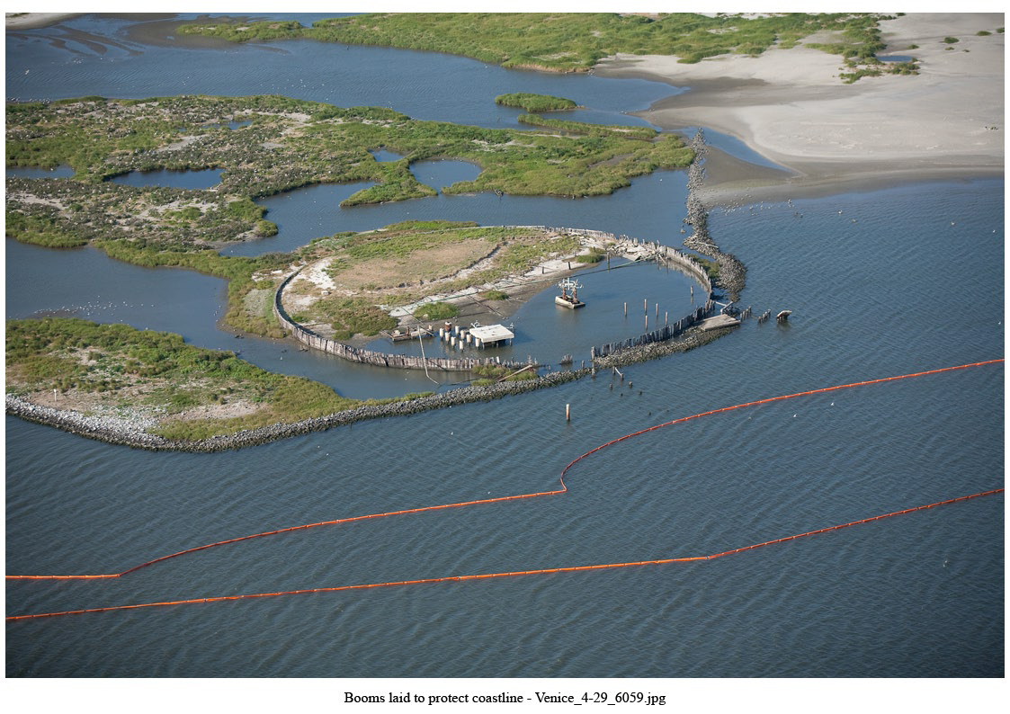 VENICE, La. - Containment boom is staged at the Breton National Wildlife Refuge, Thursday, April 29, 2010. As of Friday, April 30, 2010, over 217,000 feet of containment boom is used to help minimize the impact on environmentally sensitive areas.